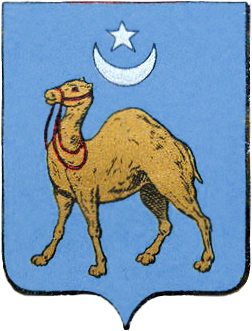 Taken from russian wikipedia, author Wassily